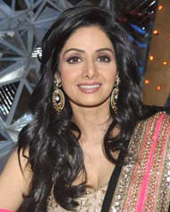 Madhuri Dixit and Sridevi on Jhalak Dikhhla Jaa 5 where Sridevi was present for promotion of her film English Vinglish.